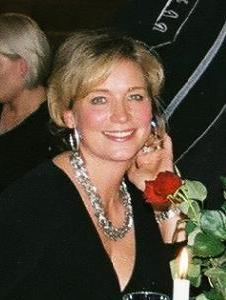 Monika KlumPlace: Lillienhoff Palace, Stockholm, Sweden